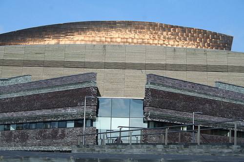 Wales Millennium Centre, Cardiff, Wales